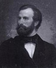 Self portrait by John Pope (1821-1880)